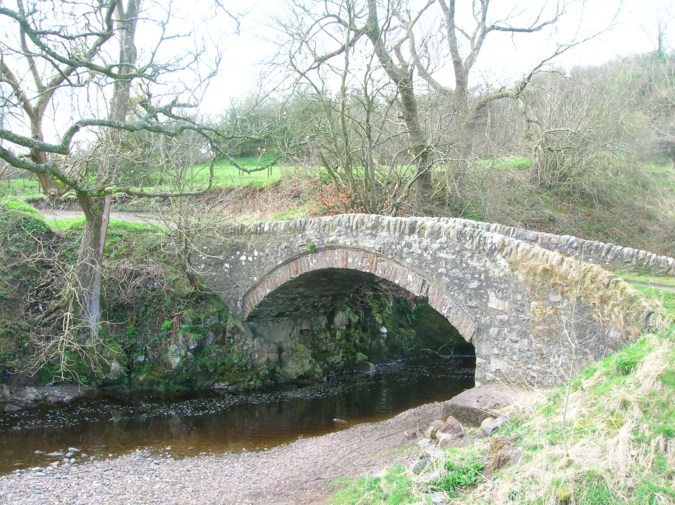 The Law Brig over the Glen Water near Darvel in East Ayrshire, Scotland. 2007.